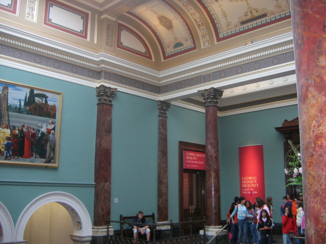 London : National Gallery